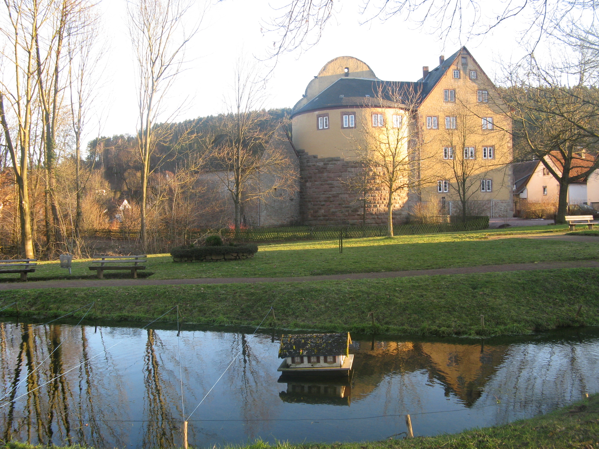 Castle Burgjoß/Spessart, Germany